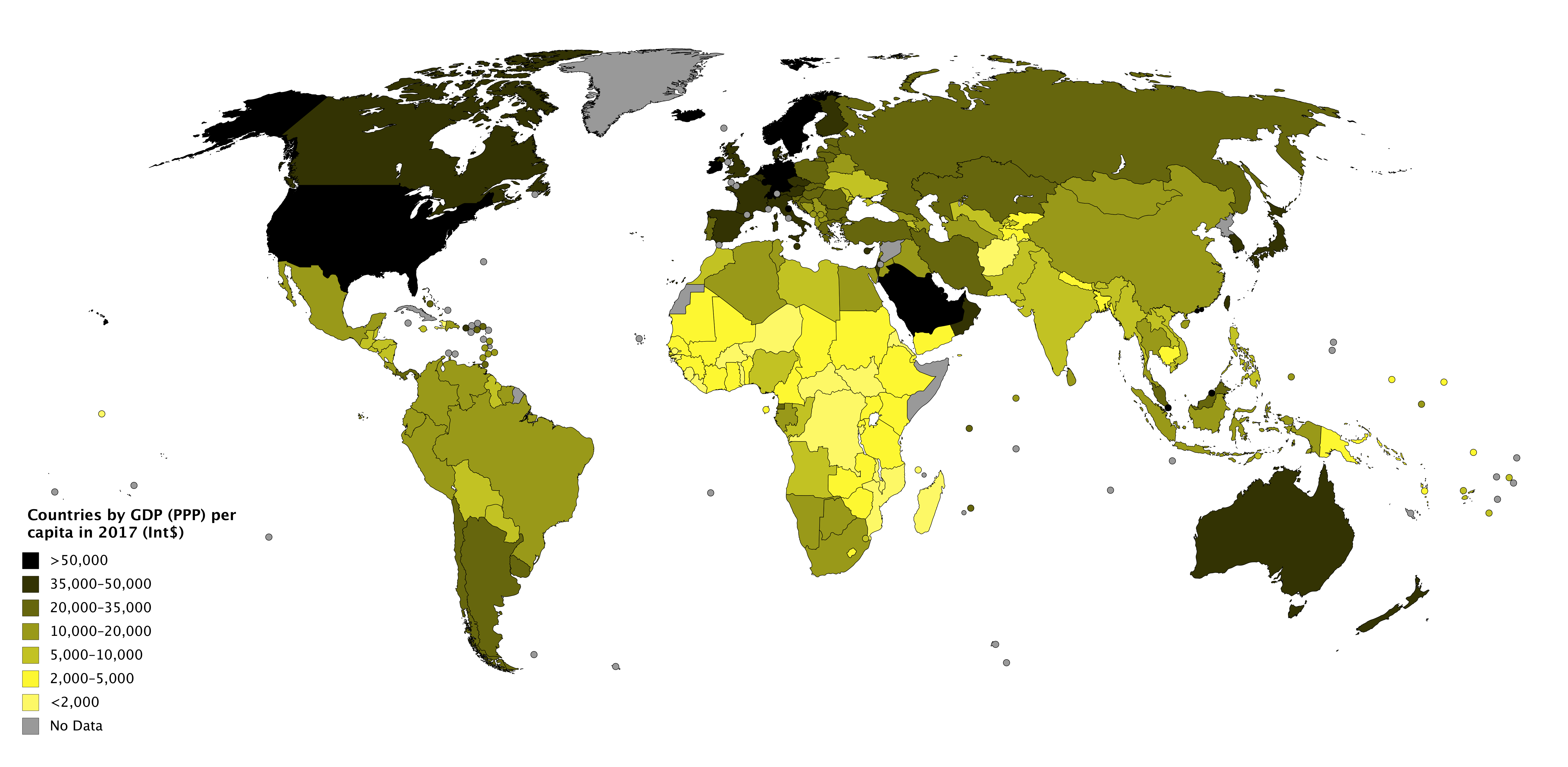 A choropleth map showing GDP per capita at purchasing power parity in 2017, based on data from the World Economic Outlook Database from the International Monetary Fund. Countries and territories not included in the list are showing in grey.